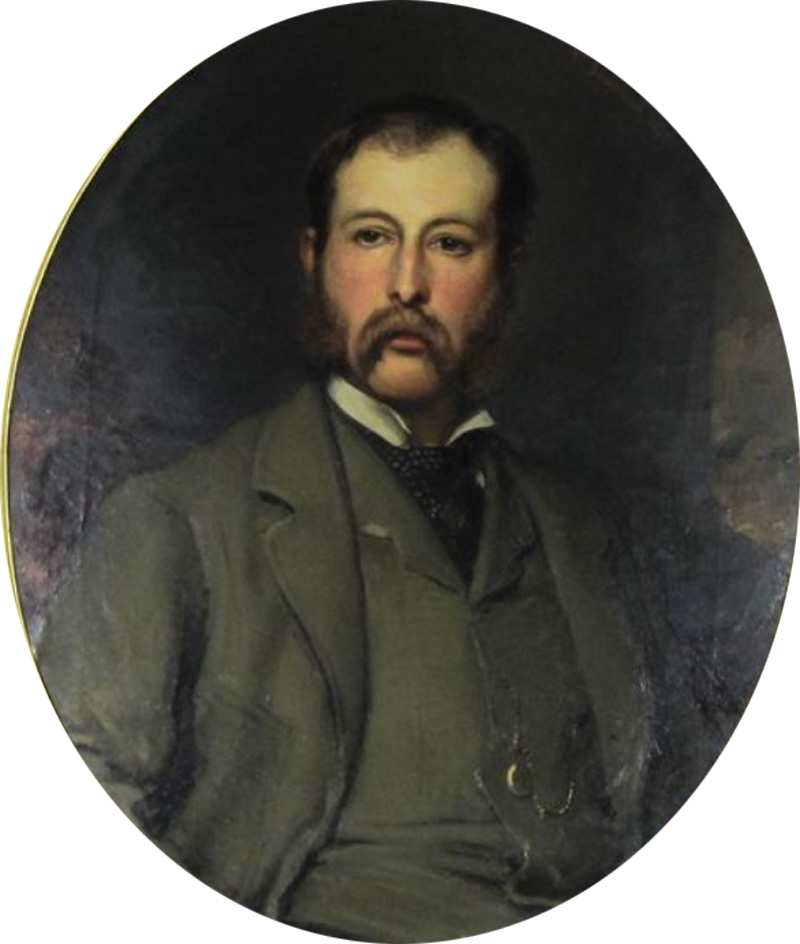 John Baddeley Wood owner of Henley Hall Ludlow, 1876